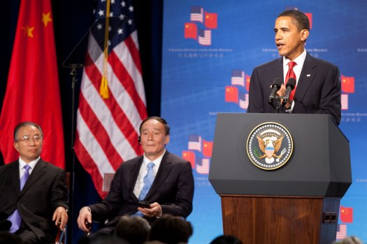 President Barack Obama addresses the opening session of the first U.S.-China Strategic and Economic Dialogue at the Ronald Reagan Building and International Trade Center in Washington, Monday, July 27, 2009. Listening at left are Chinese Vice Premier Wang Qishan, center, and Chinese State Councilor Dai Bingguo, left. 中文（中国大陆）: 美国总统奥巴马（右）正在首轮中美战略与经济对话开幕式上发表讲话，旁听的分别是国务院副总理王岐山（中）和国务委员戴秉国（左）。